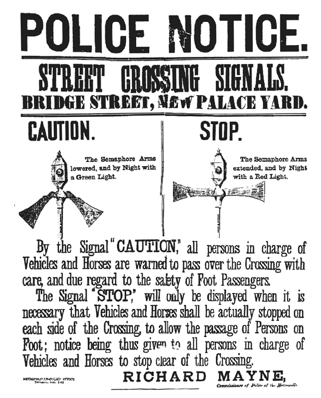 Poster issued by the Metropolitan Police in 1868 announcing the first pedestrian crossing signal.